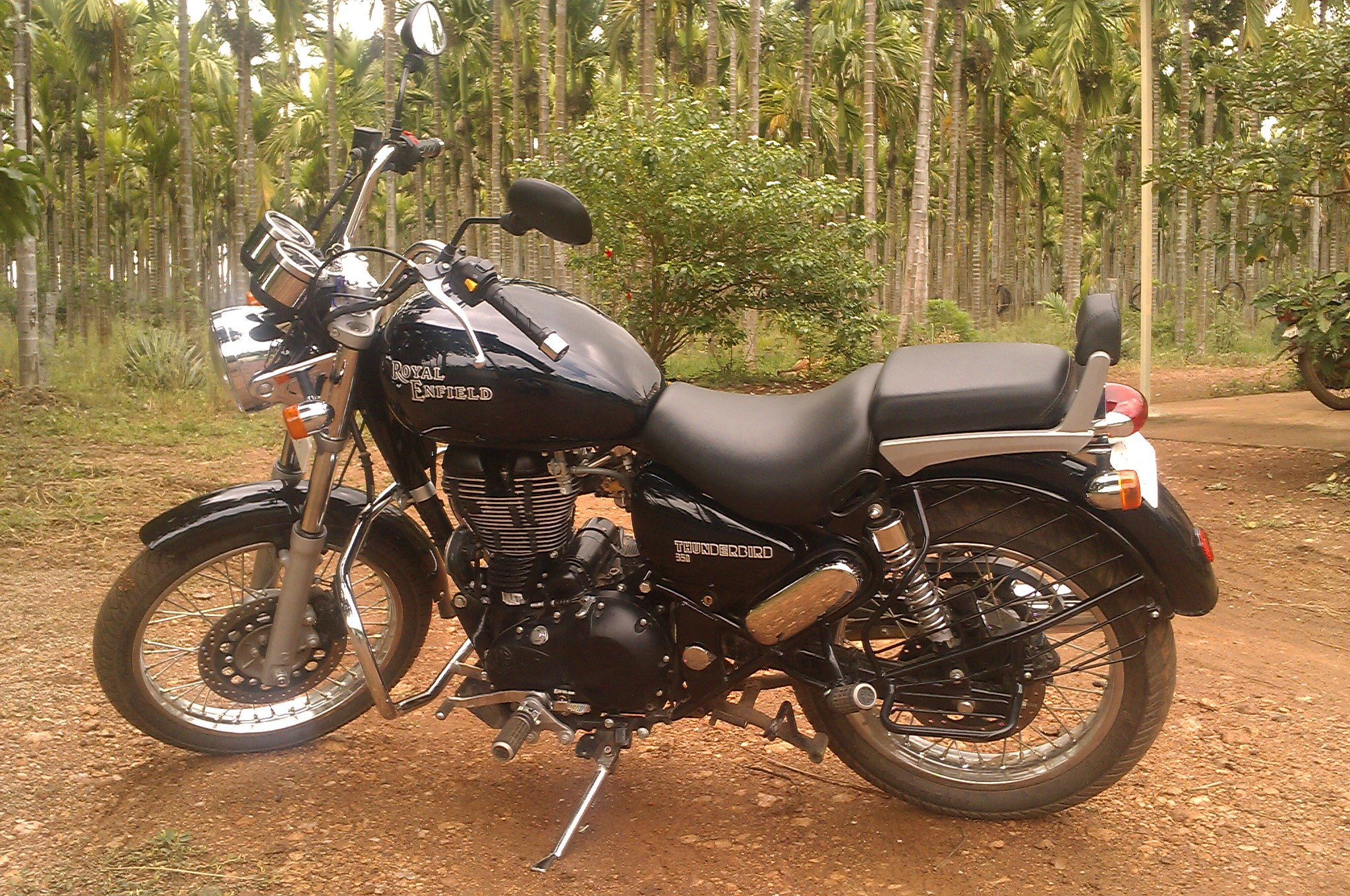 Royal Enfield Thunderbird 500 released in 2012